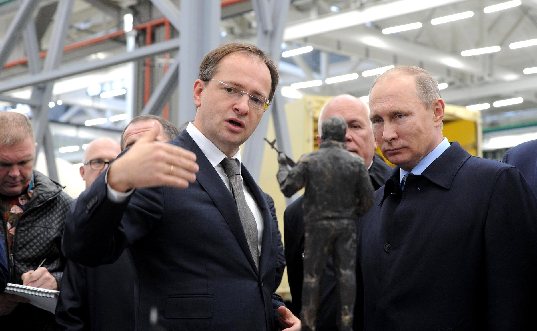 During a visit to the Kalashnikov Concern, Minister of Culture Vladimir Medinsky (left) shows Vladimir Putin a model of the monument to Mikhail Kalashnikov, designer of the Kalashnikov rifle.